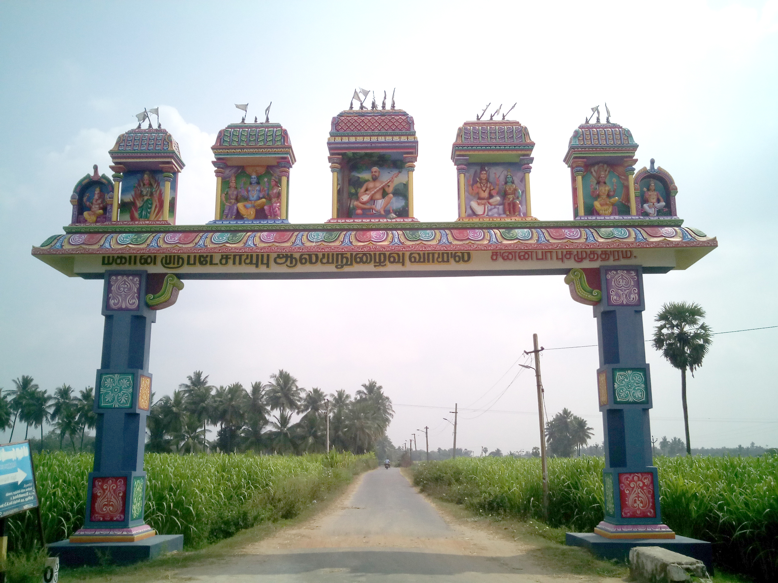 This file is my own work.